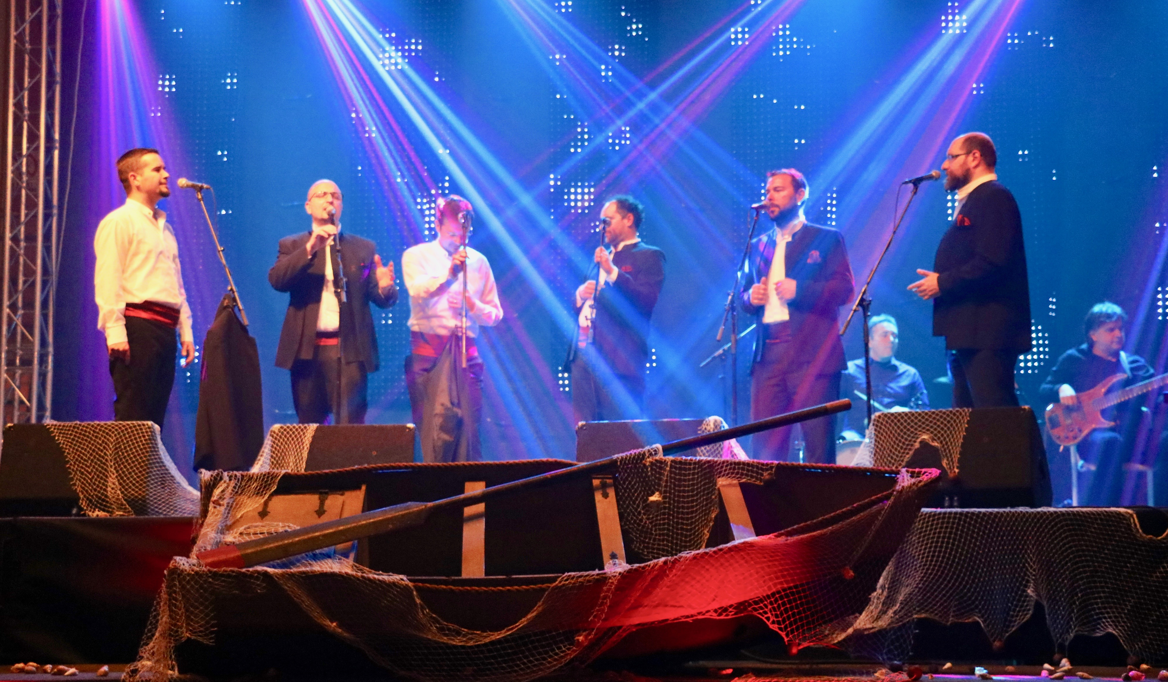 Live performance photo.